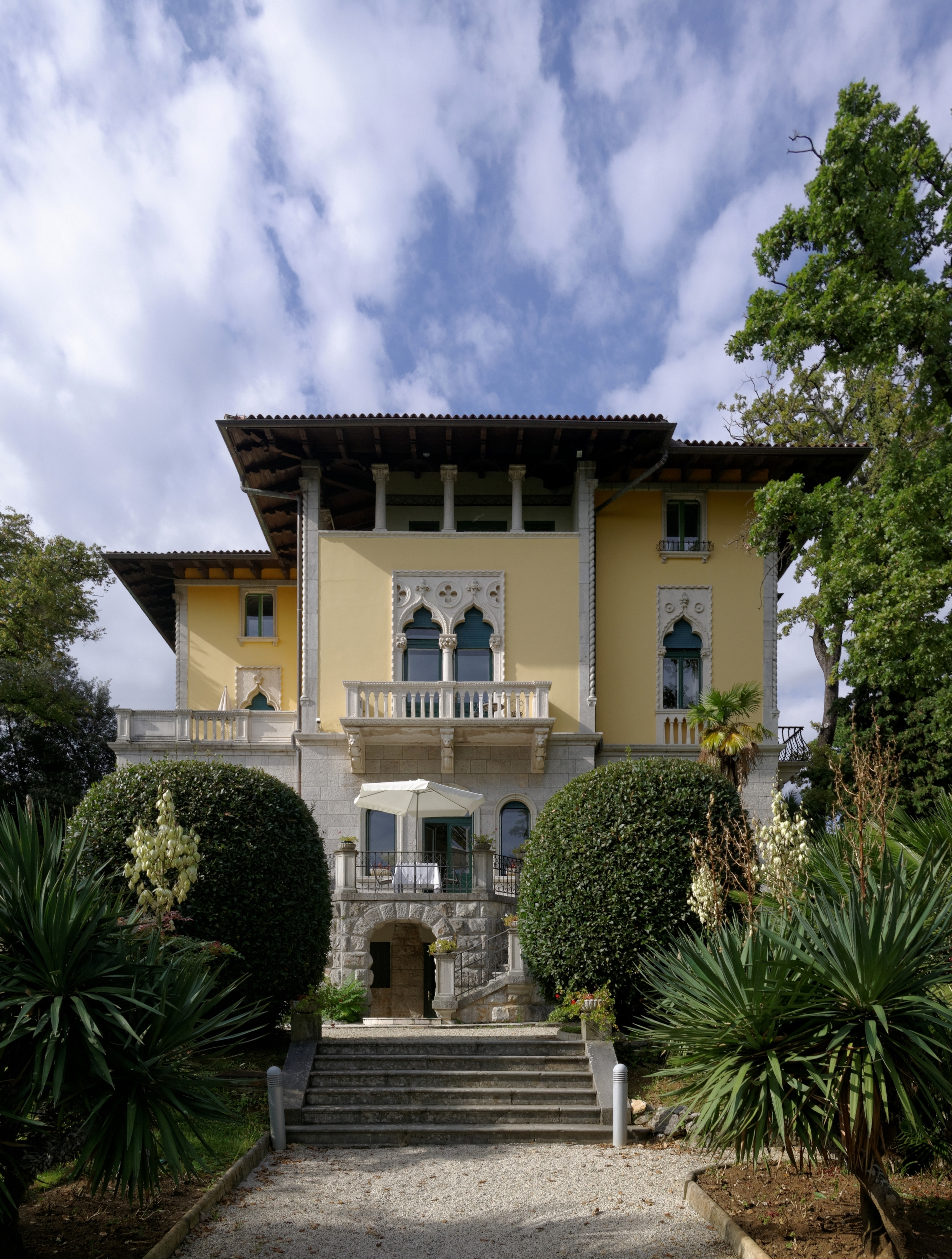 Croatia, Ika, Villa at the Lungomare